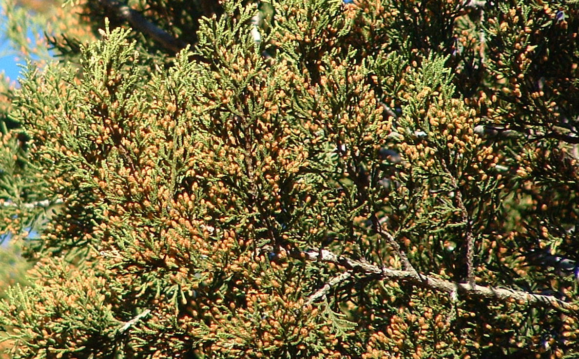 Juniperus ashei foliage and pollen cones, Austin, Texas, 30°11'58"N 97°50'47"W, 240m altitude.